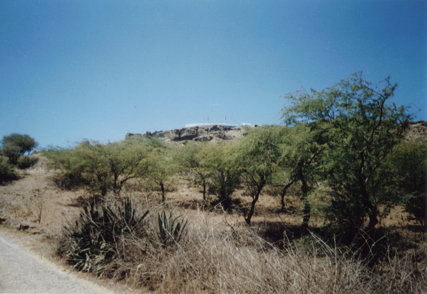 View to the chapel, Campo Baixo, Brava, Cabo Verde.